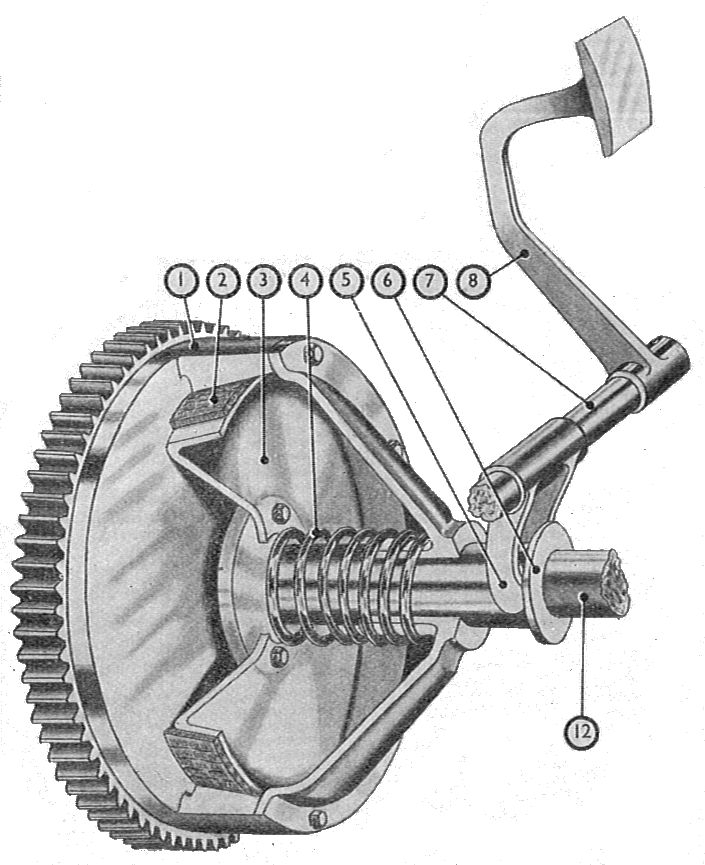 Cone clutch (Manual of Driving and Maintenance).jpg